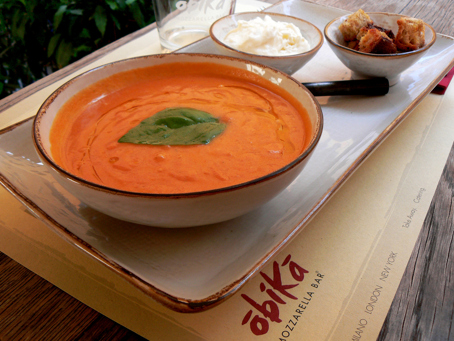 Basil and Organic Tomato Soup